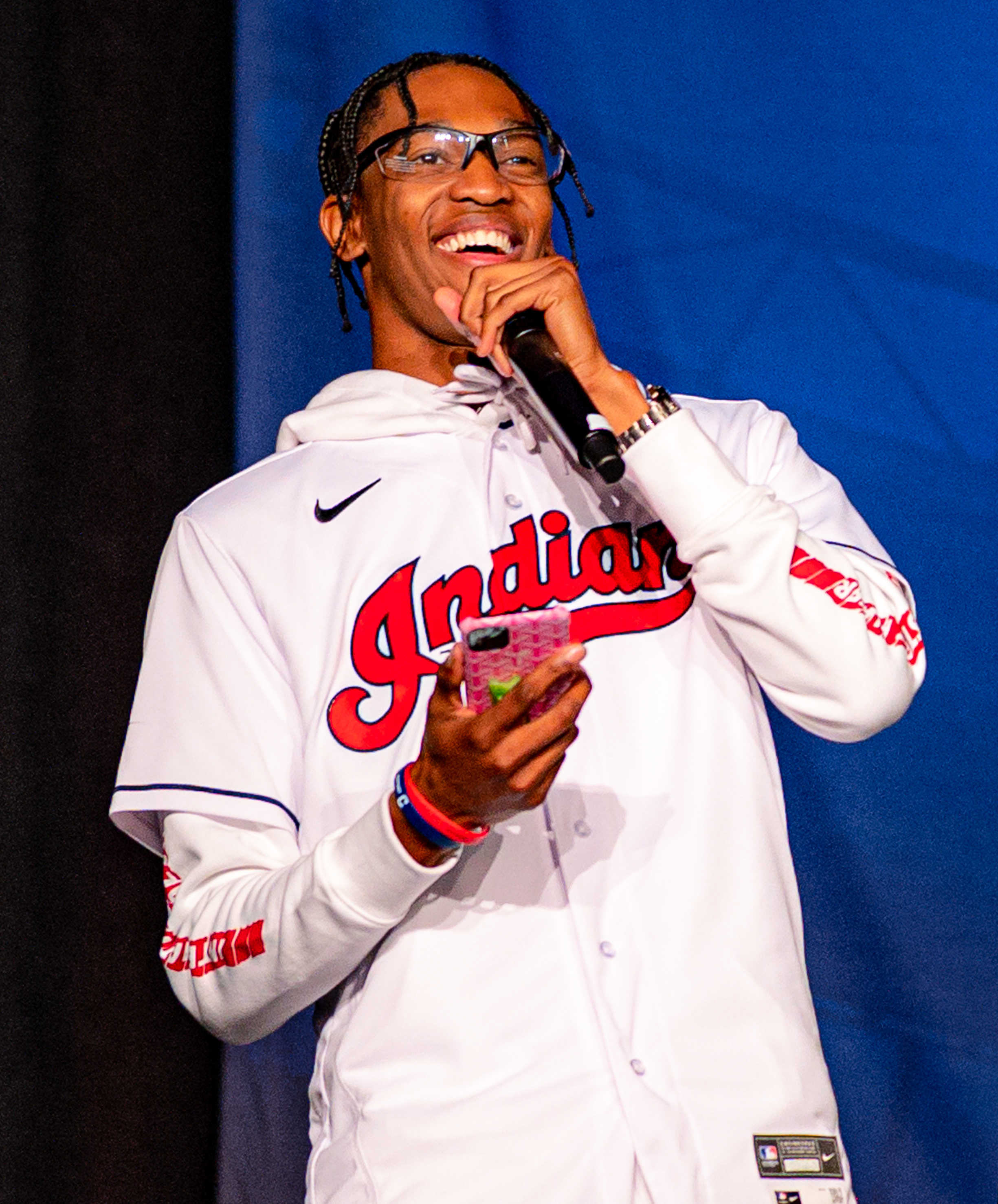 Triston McKenzie and Rick Smith Jr. at Cleveland Indians Tribe Fest at Huntington Convention Center of Cleveland in February 2020.